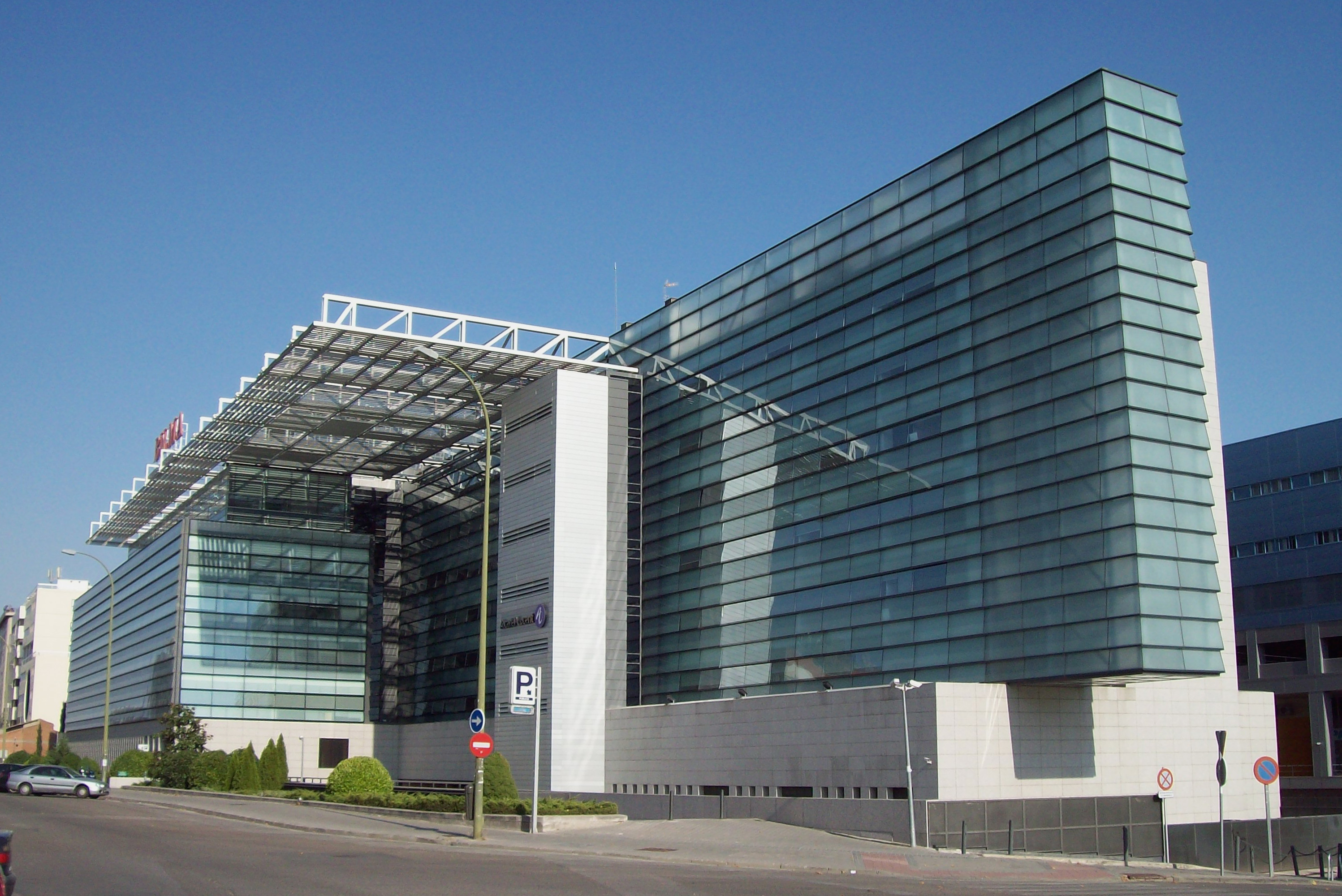 View of Bilma Enterprise Centre in Madrid (Spain).